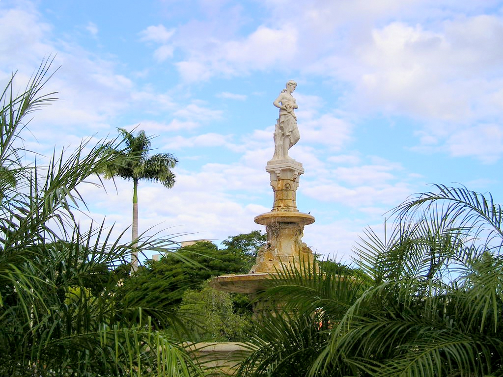 "Fontaine Céleste" on the "Place des Cocotiers" in Nouméa, New Caledonia